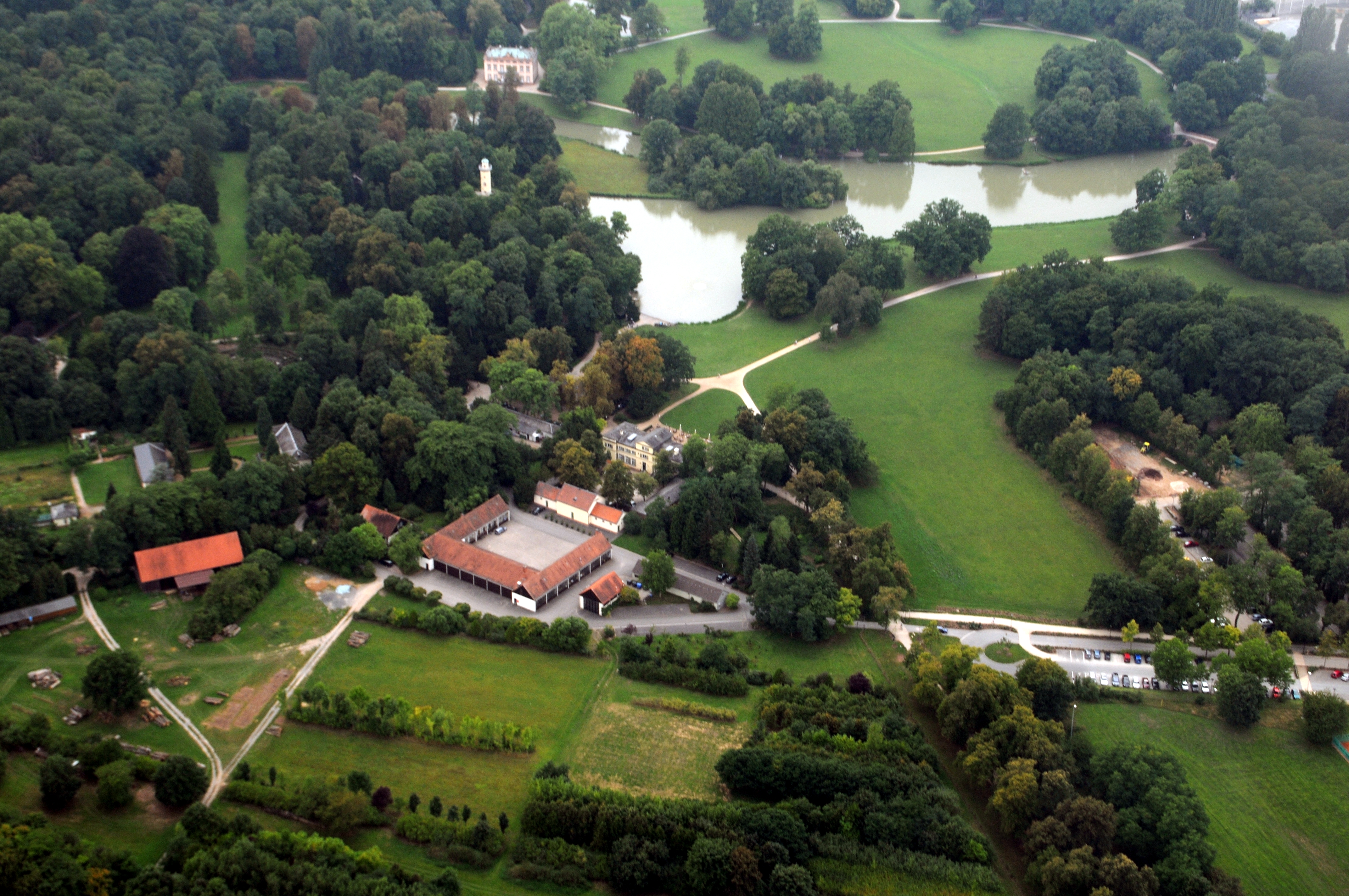 Park Schönbuschsee, Aschaffenburg, Bavaria, Germany, aerial photograph